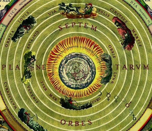 Sublunary spheres, according to Aristotelian physics and Greek astronomy: sphere of fire, air, water and earth.